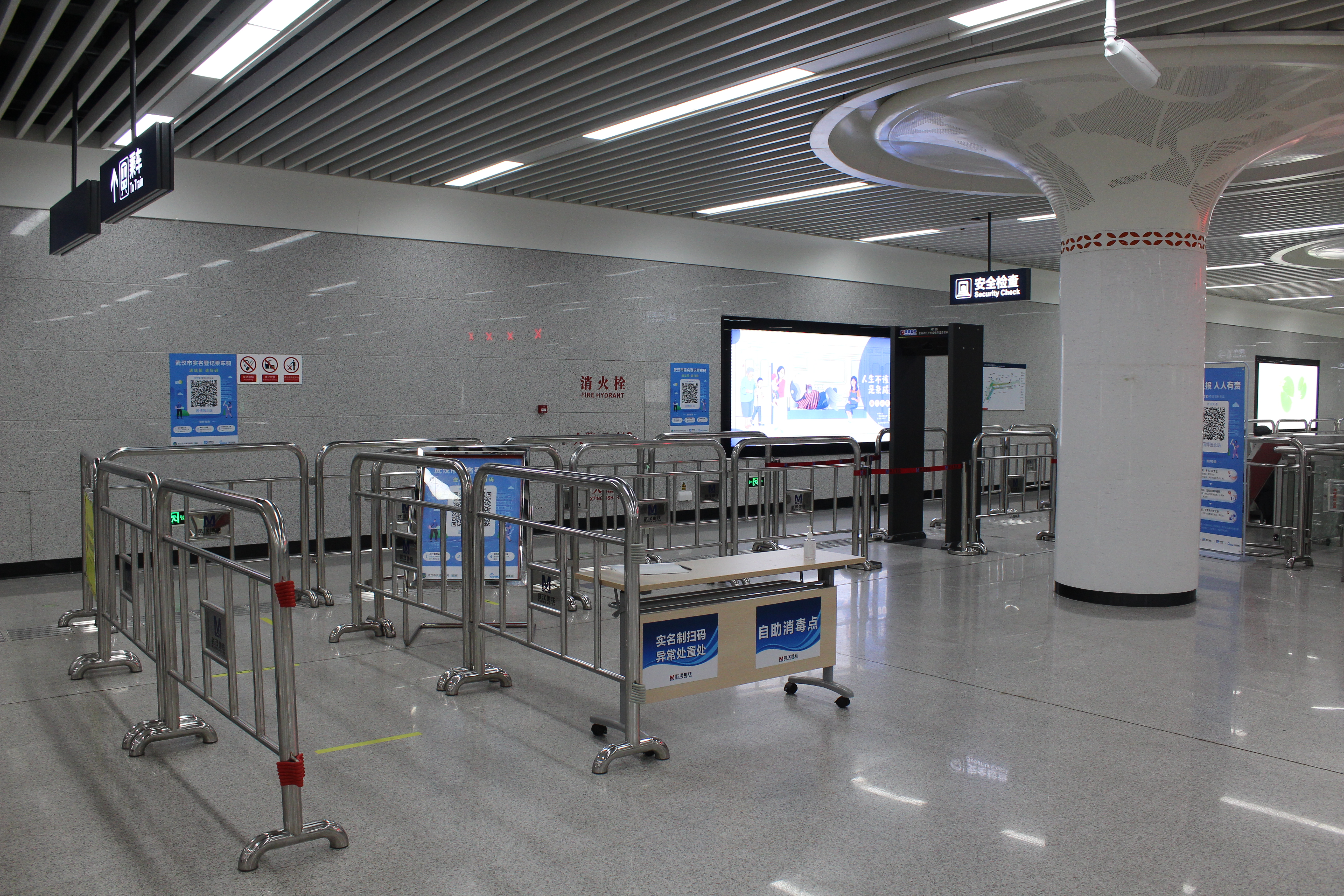 Self-service disinfection area & body temperature measurement area in Wuhan Metro Garden Expo North Station